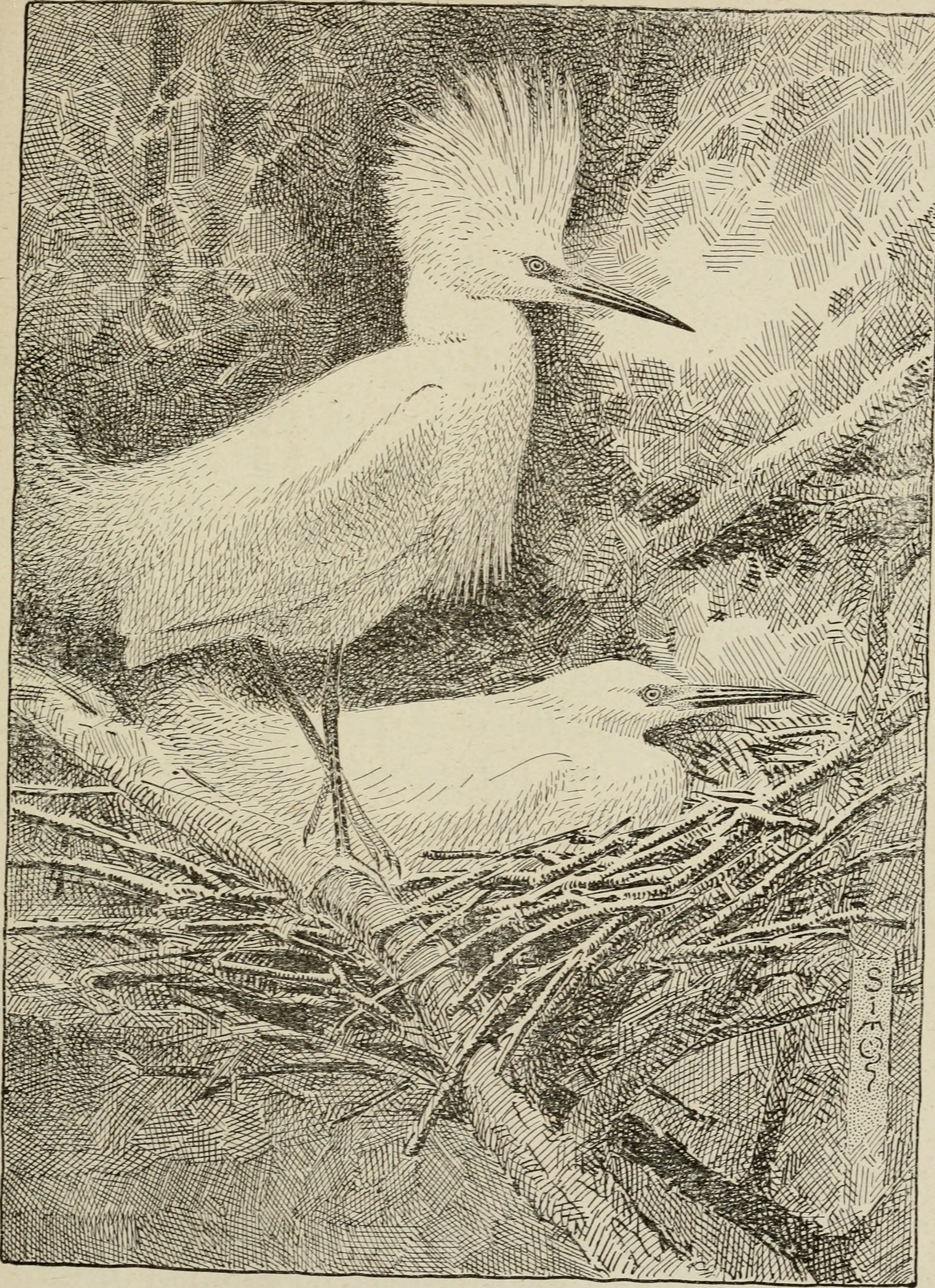 Title: Bird stories Year: 1921 (1920s) Authors: Patch, Edith M. (Edith Marion), 1876-1954 Subjects: Birds -- Juvenile literature Publisher: Boston, The Atlantic Monthly Press Text Appearing Before Image: ~1 Text Appearing After Image: That criss-cross pile of old dead twigs was a dear home, and they both guarded it.